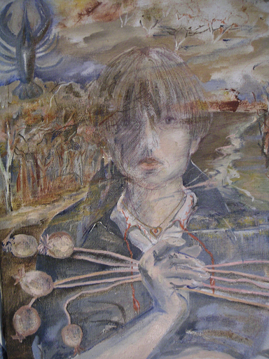 autor pracy - Ewa Wieczorek autor zdjęcia - Beata Sokalska-Wieczorek i Piotr Wieczorek